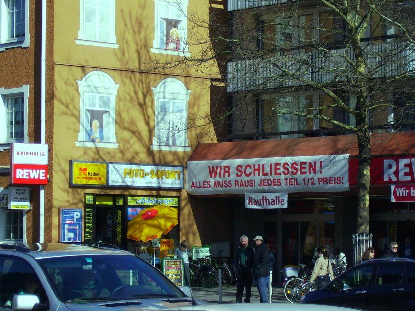 department store "Kaufhalle" in Munich-Laim, Germany.